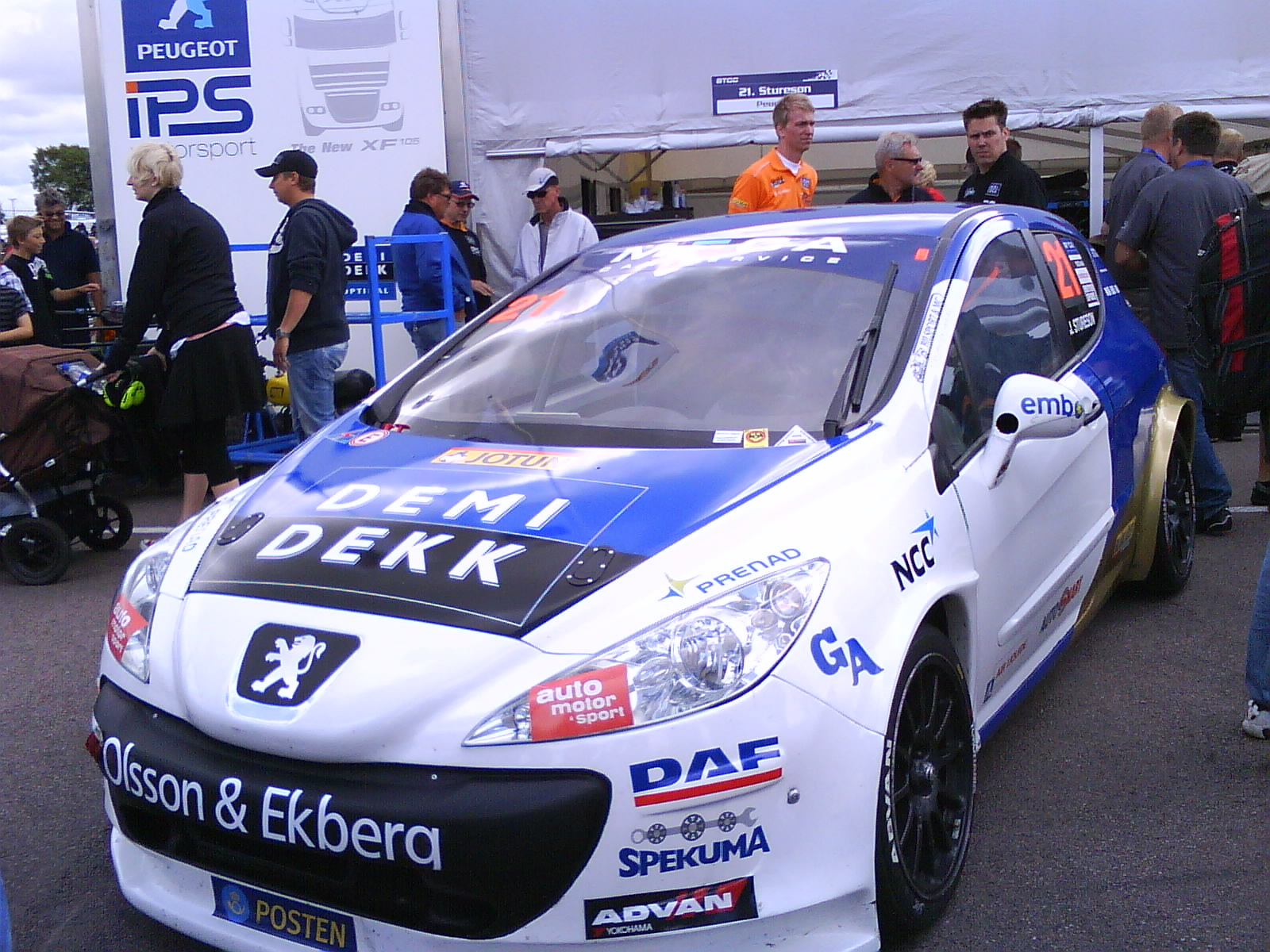 Johan Stureson's Peugeot 308 STCC (IPS Motorsport). Falkenbergs Motorbana 2009.